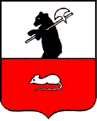 Myshkin & Myshkinsky District (Yaroslavl oblast), coat of arms (2002)